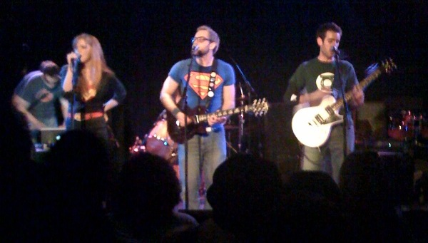 I Fight Dragons at Martyr's in Chicago